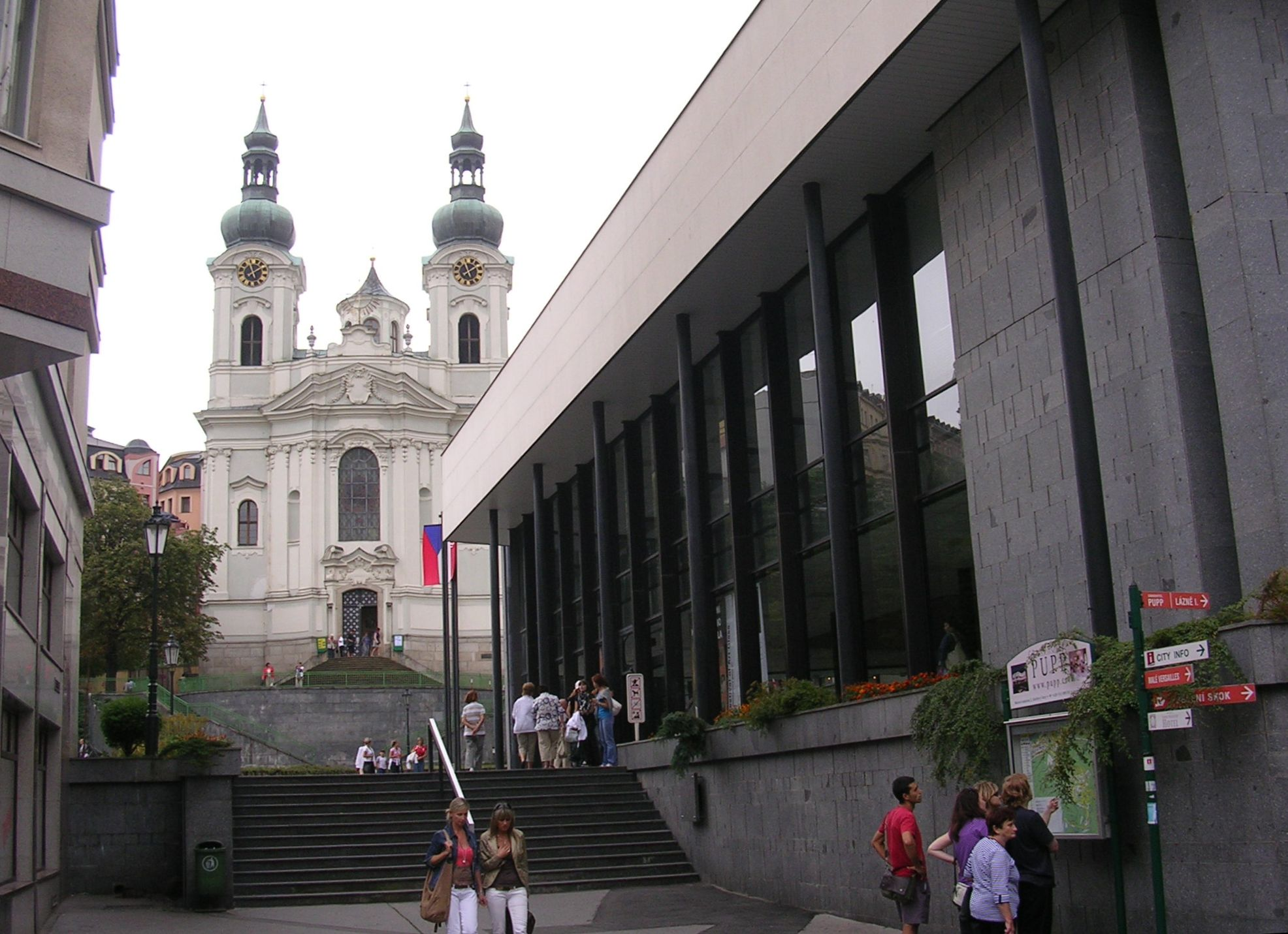 Karlovy Vary, the Czech Republic. A church and a colonnade near the Freedom Square.